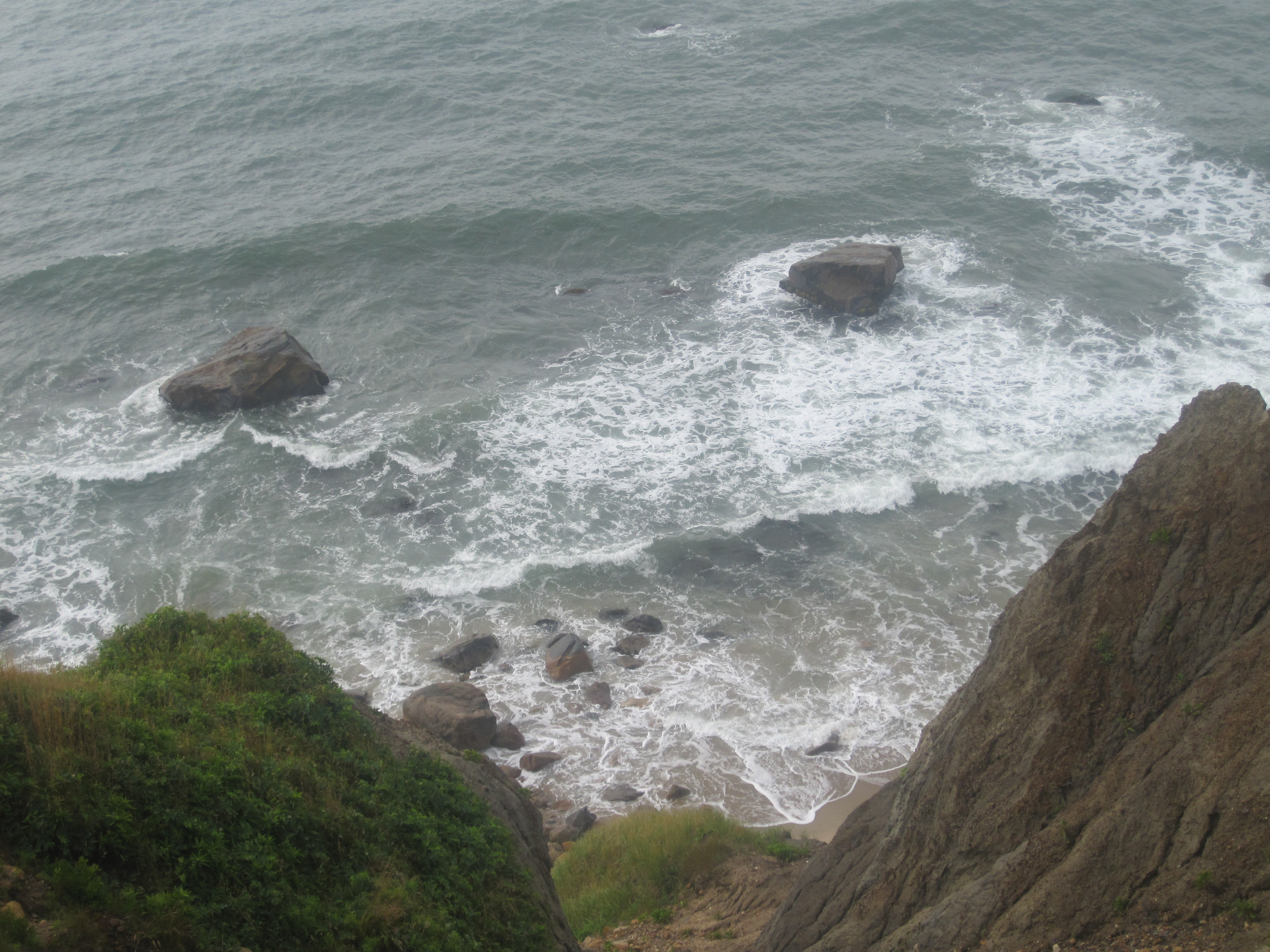 Mohegan Bluffs at Block Island — in Rhode Island.